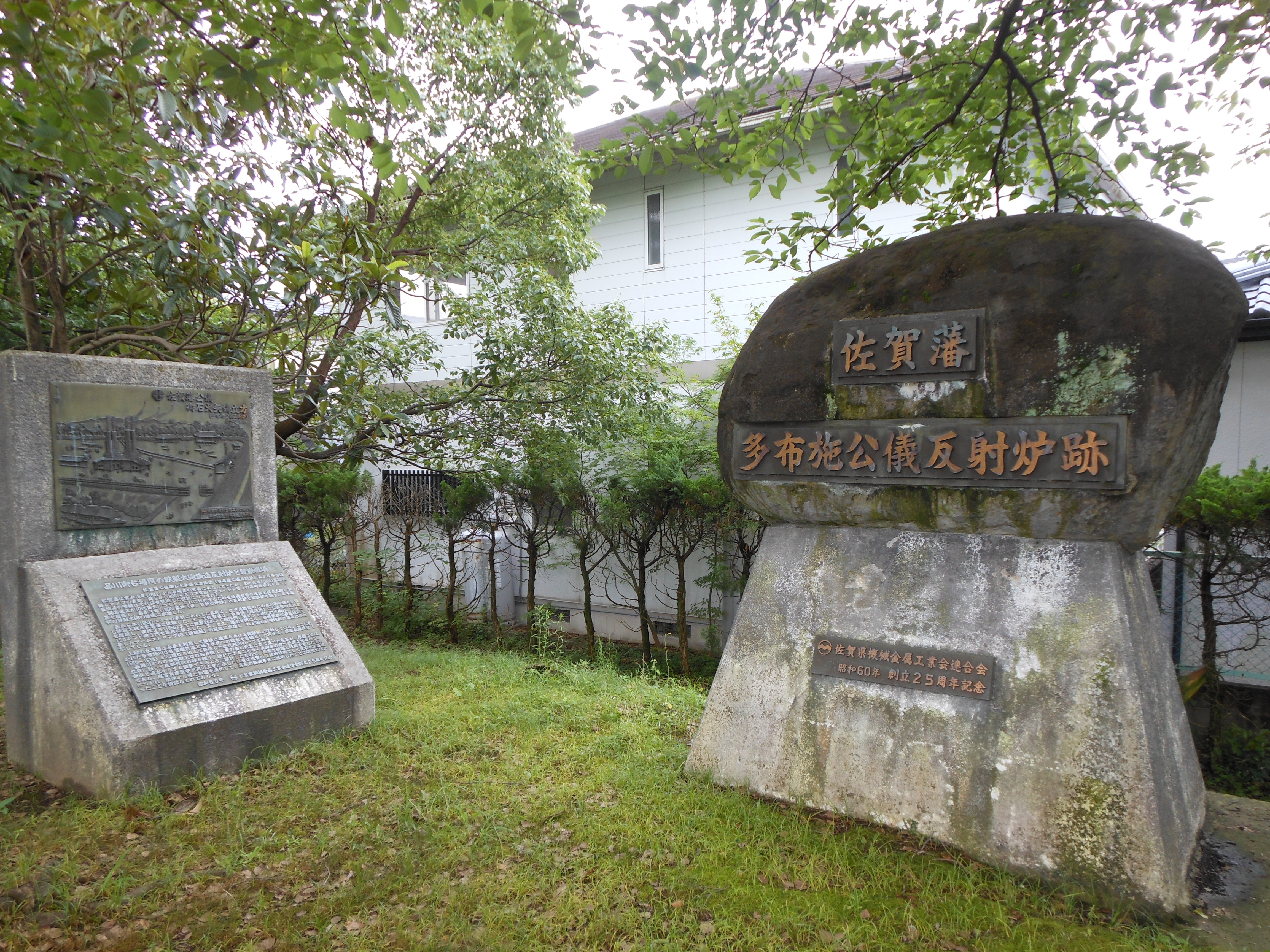 Tafuse Reverberatory furnace(Tafuse-Hansharo) Monument in Saga City, Saga Pref., Japan.